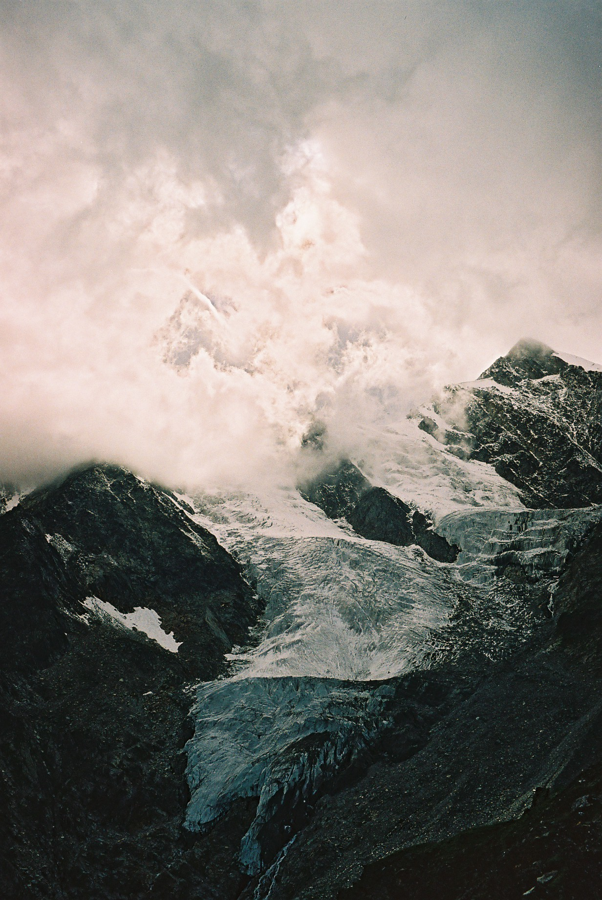 Hochbalm Glacier above summer and skiresort Saas Fee, in Switzerland Picture taken in August 2006